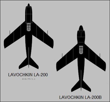 Plan-view silhouettes of the Lavochkin La-200 and La-200B